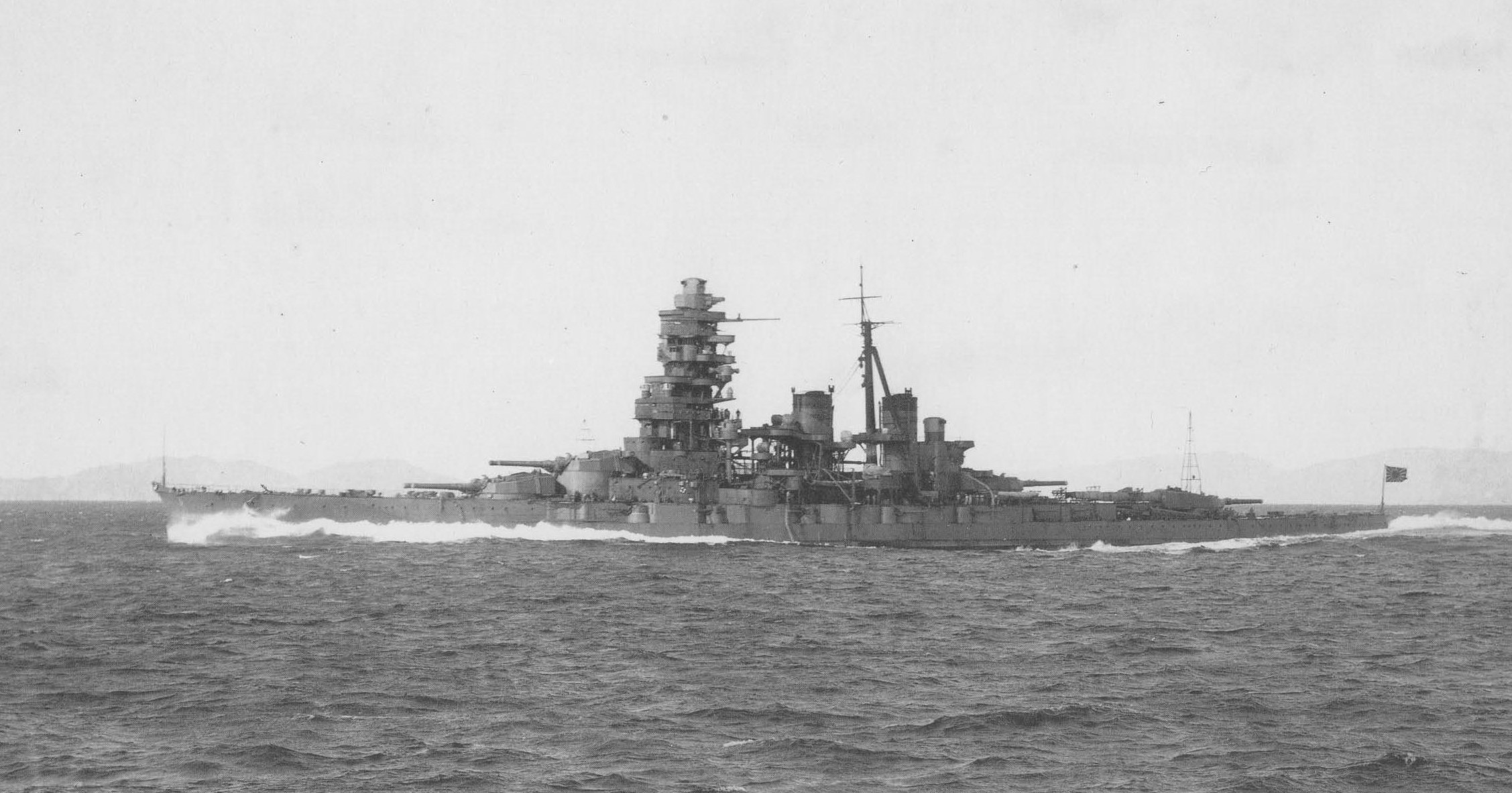 Imperial Japanese Navy battleship Hiei undergoes a full-power trial off Tsukugewan.